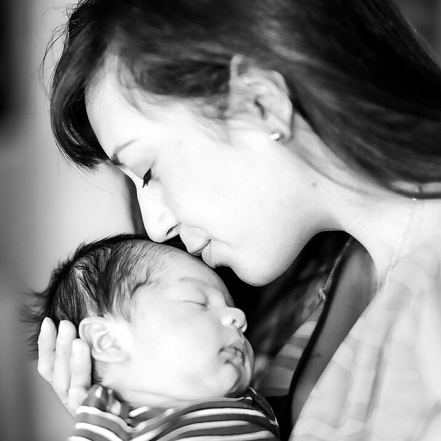 A mothers love